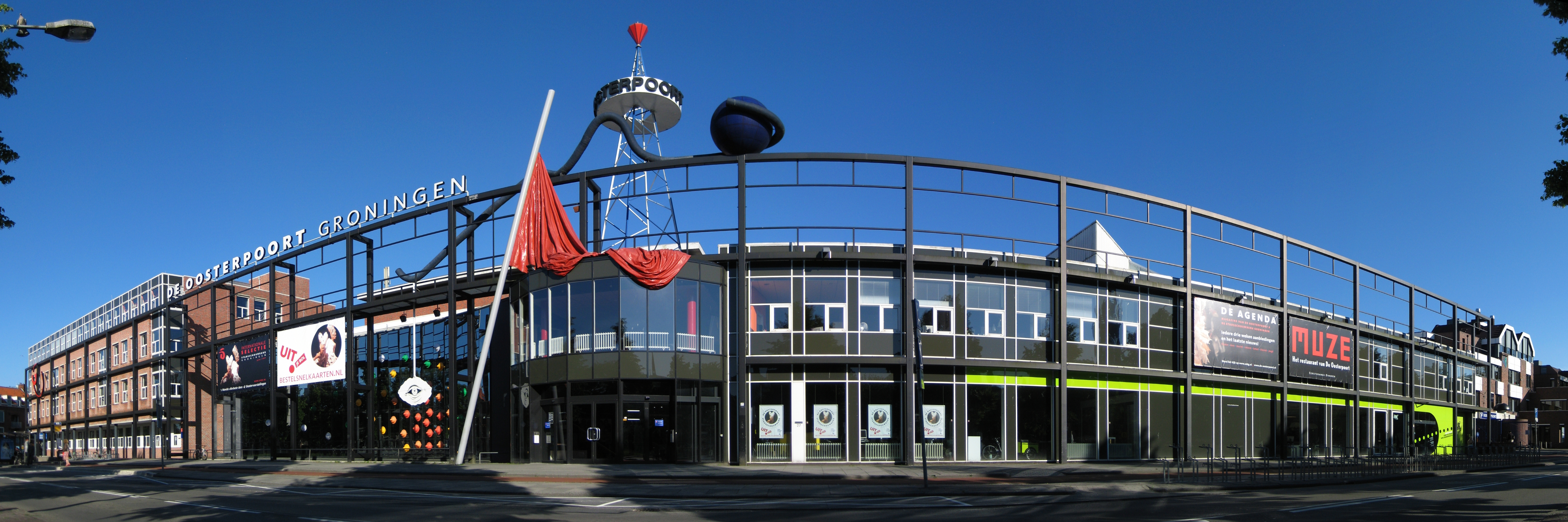 Cultural centre De Oosterpoort in the Dutch city of Groningen.